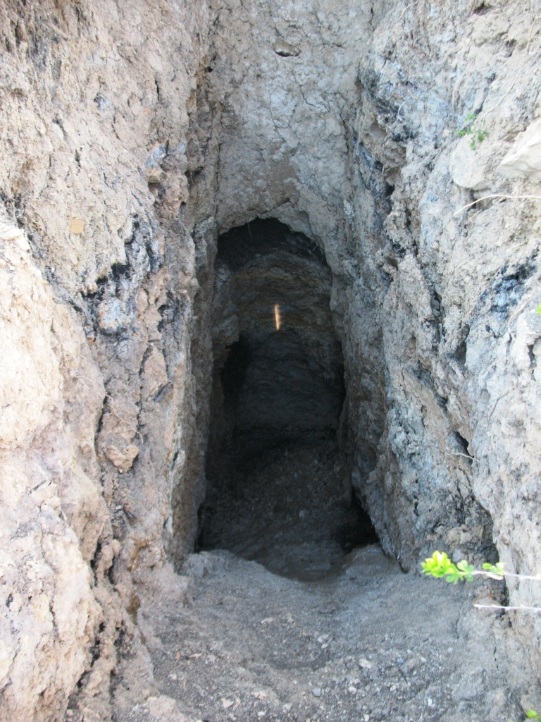 Uspenka, Luhansk Oblast